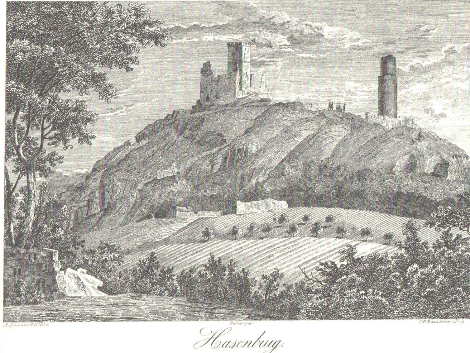 Házmburk Castle in 1841